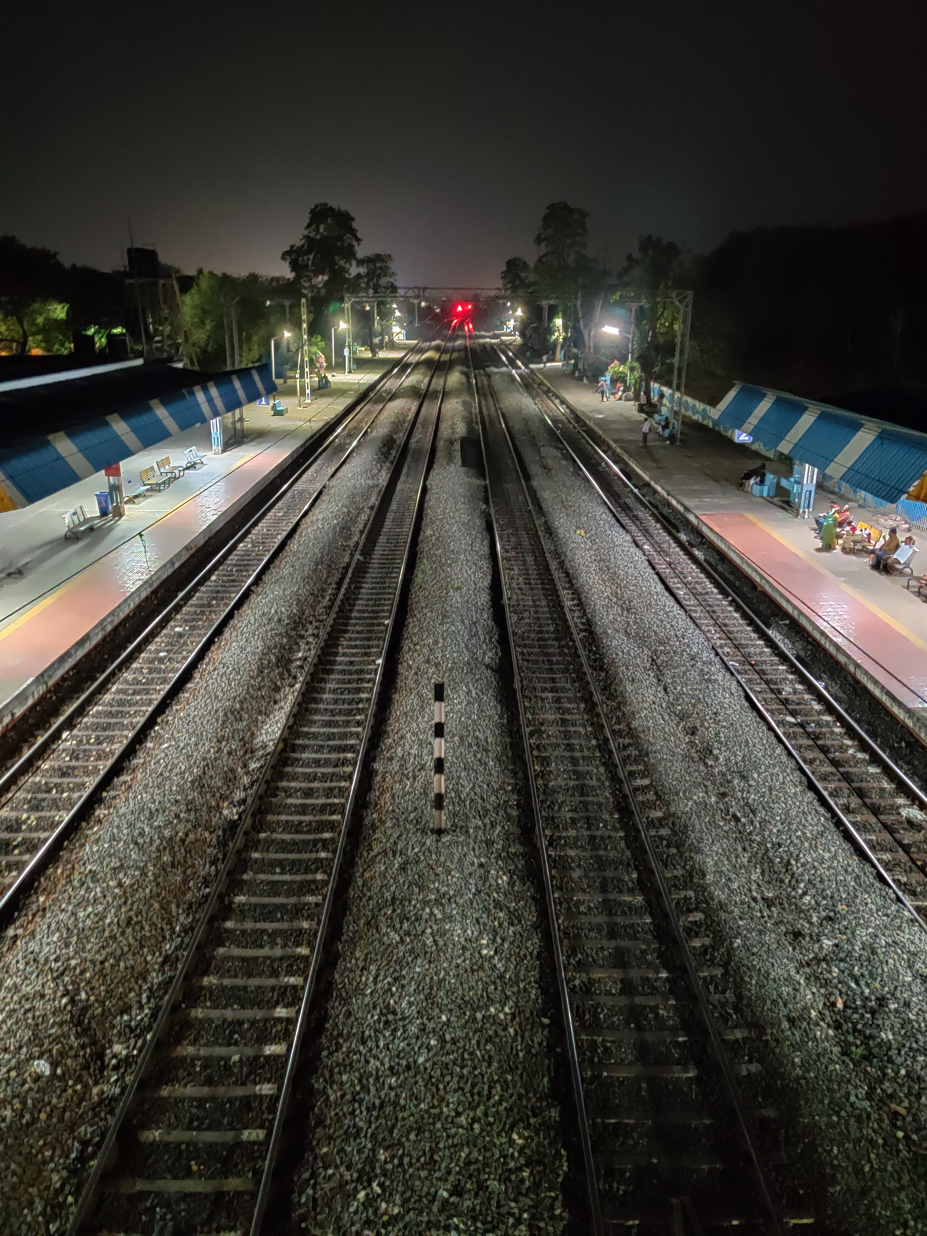 Gajapatinagaram Railway station in Andhra Pradesh